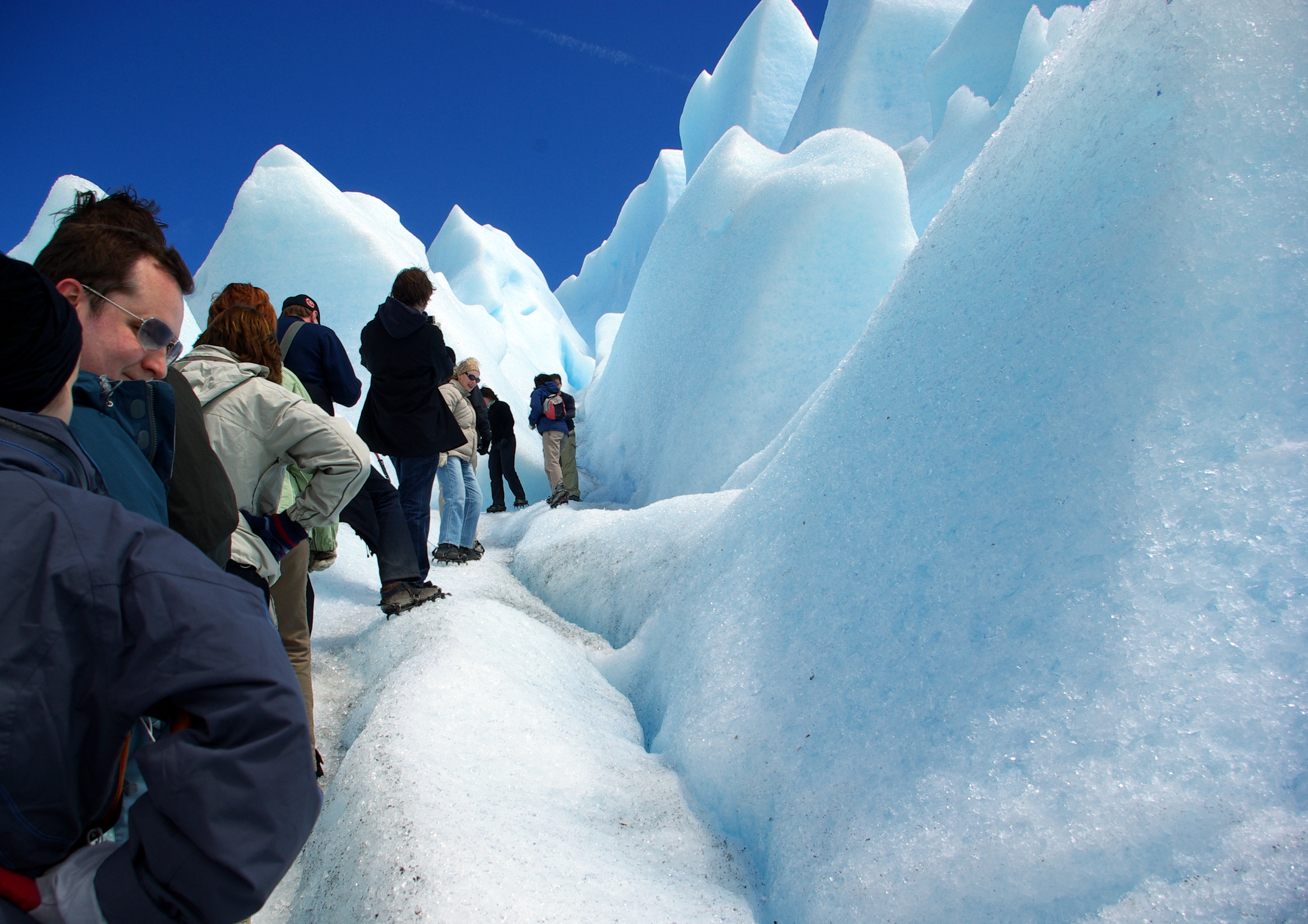 A "mini-trekking" group on Perito Moreno glacier.